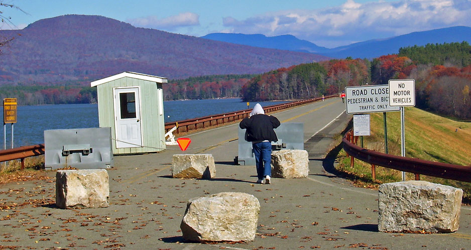 Photographed by Daniel Case 2006-11-04. Mountains in background from left:Little Tonshi and Indian Head.